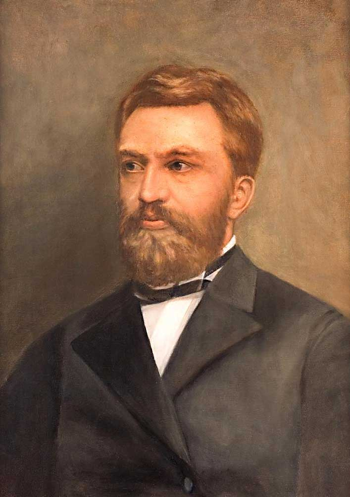 Anthony Ewoud Jan Modderman (1838-1885) Dutch jurist and politician